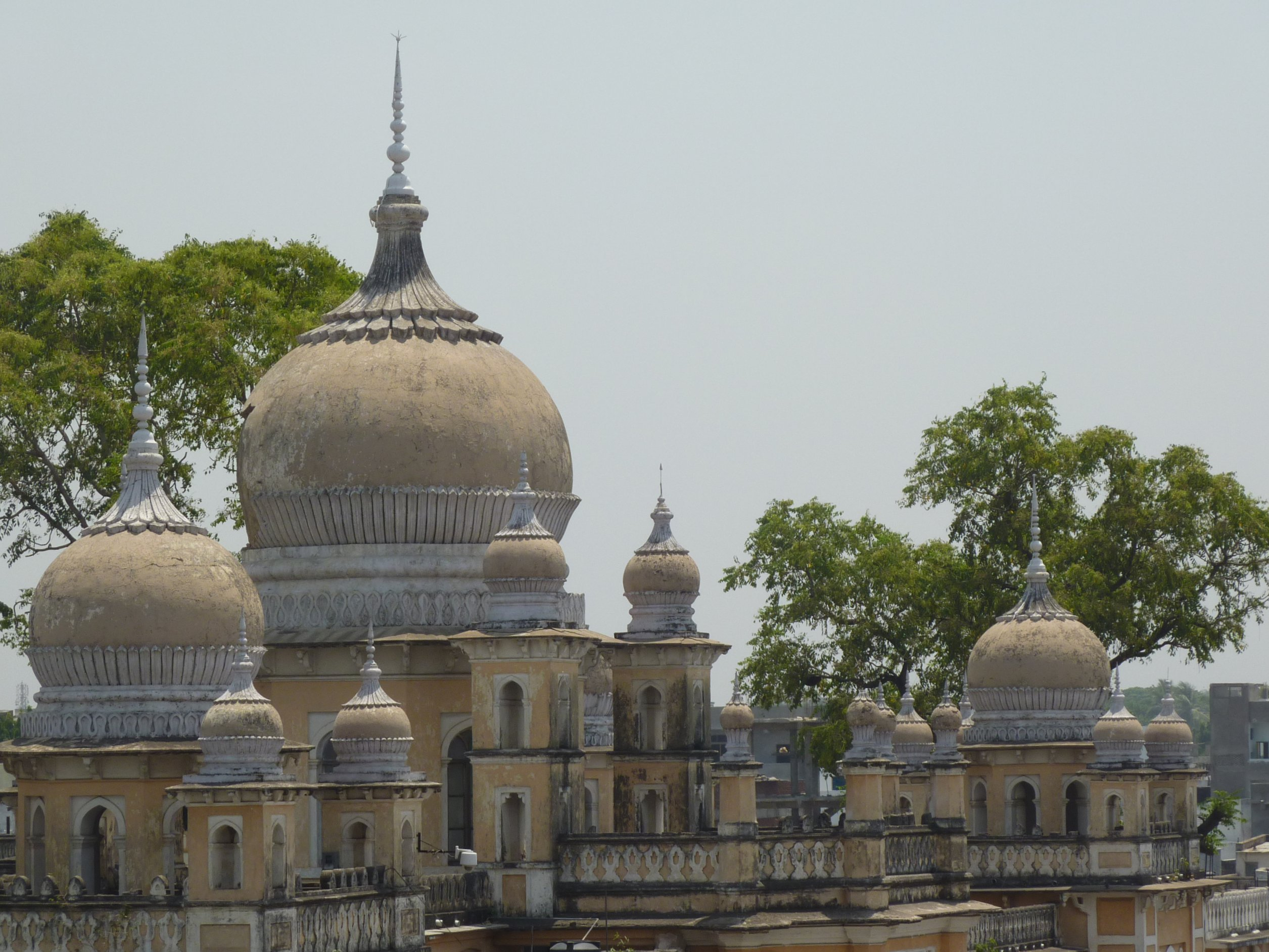 Roof of the Nizamia Unani Hospital in Hyderabad as seen from the Charminar.